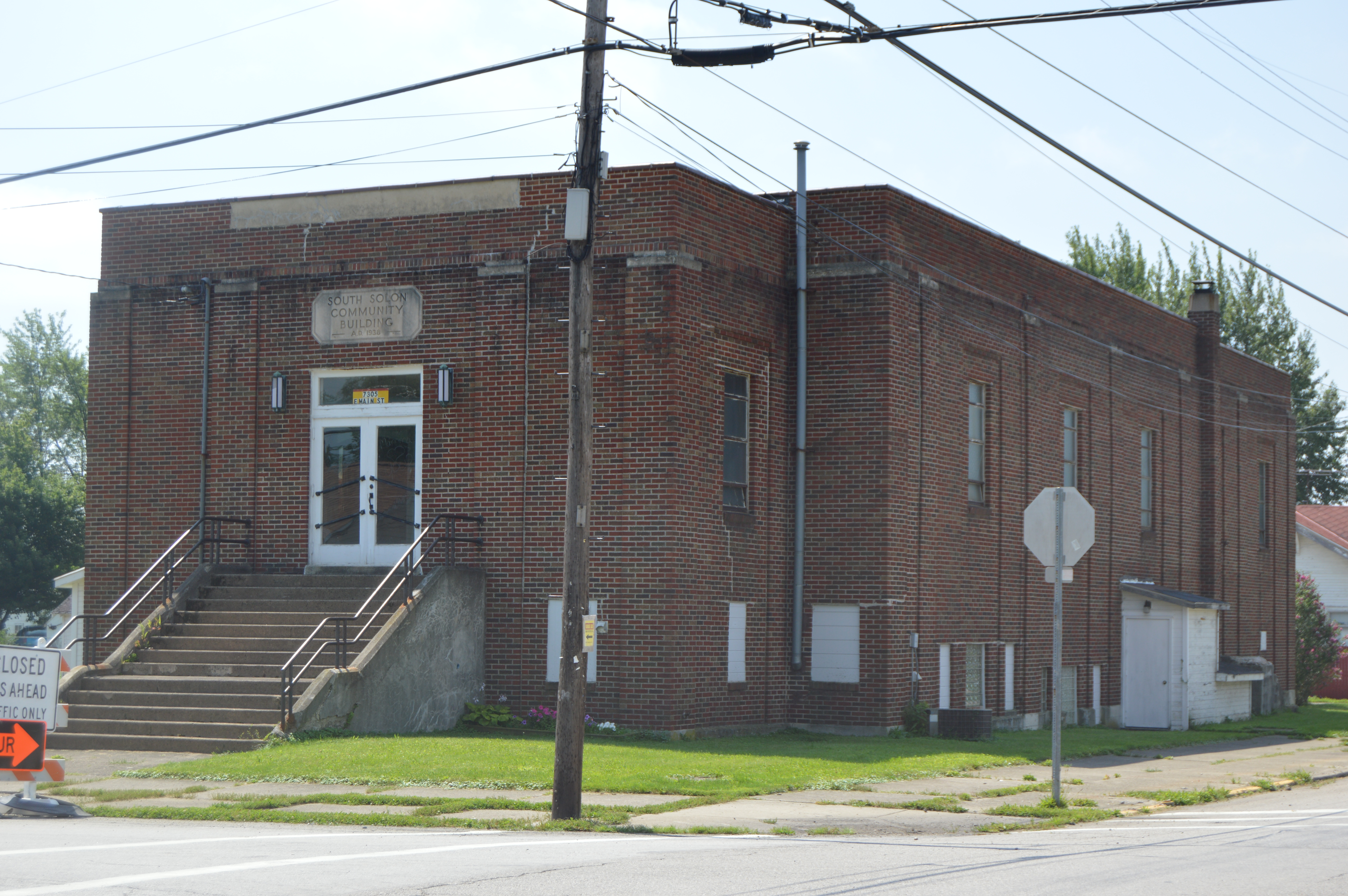 Front and western side of the South Solon Community Building, located at 7305 Main Street (State Route 323, at its junction with State Route 41) in South Solon, Ohio, United States. It was built by the Public Works Administration (source) in 1938.